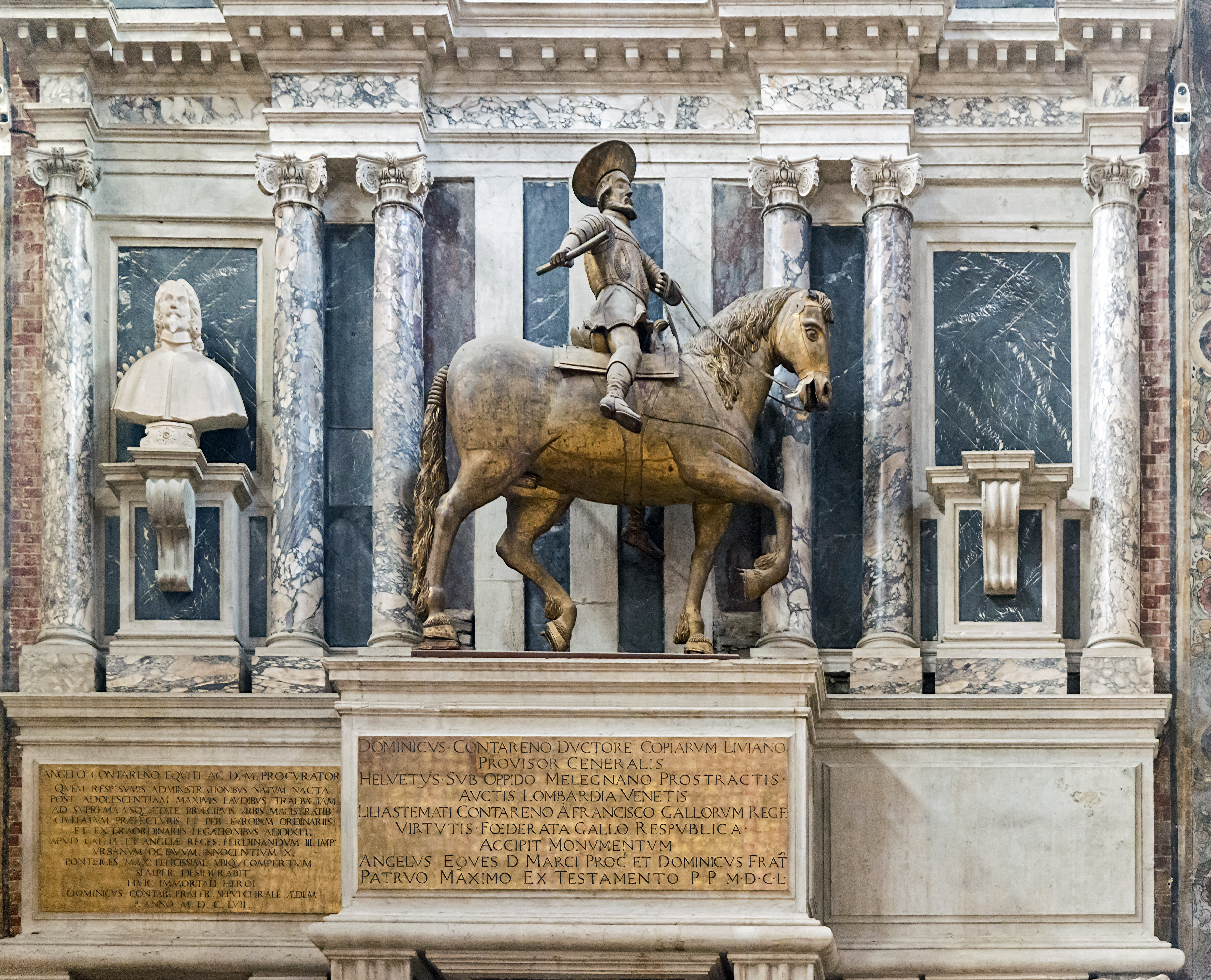 Nave of Church Santo Stefano Venice. The mausoleum of Venetian condottiero Domenico Contarini, commander at Melegnano battle in 1526, at the rear facade of Santo Stefano church in Venice. The Baroque church monument was built by his nephews in 1650, and has an equestrian statue in gilded wood.